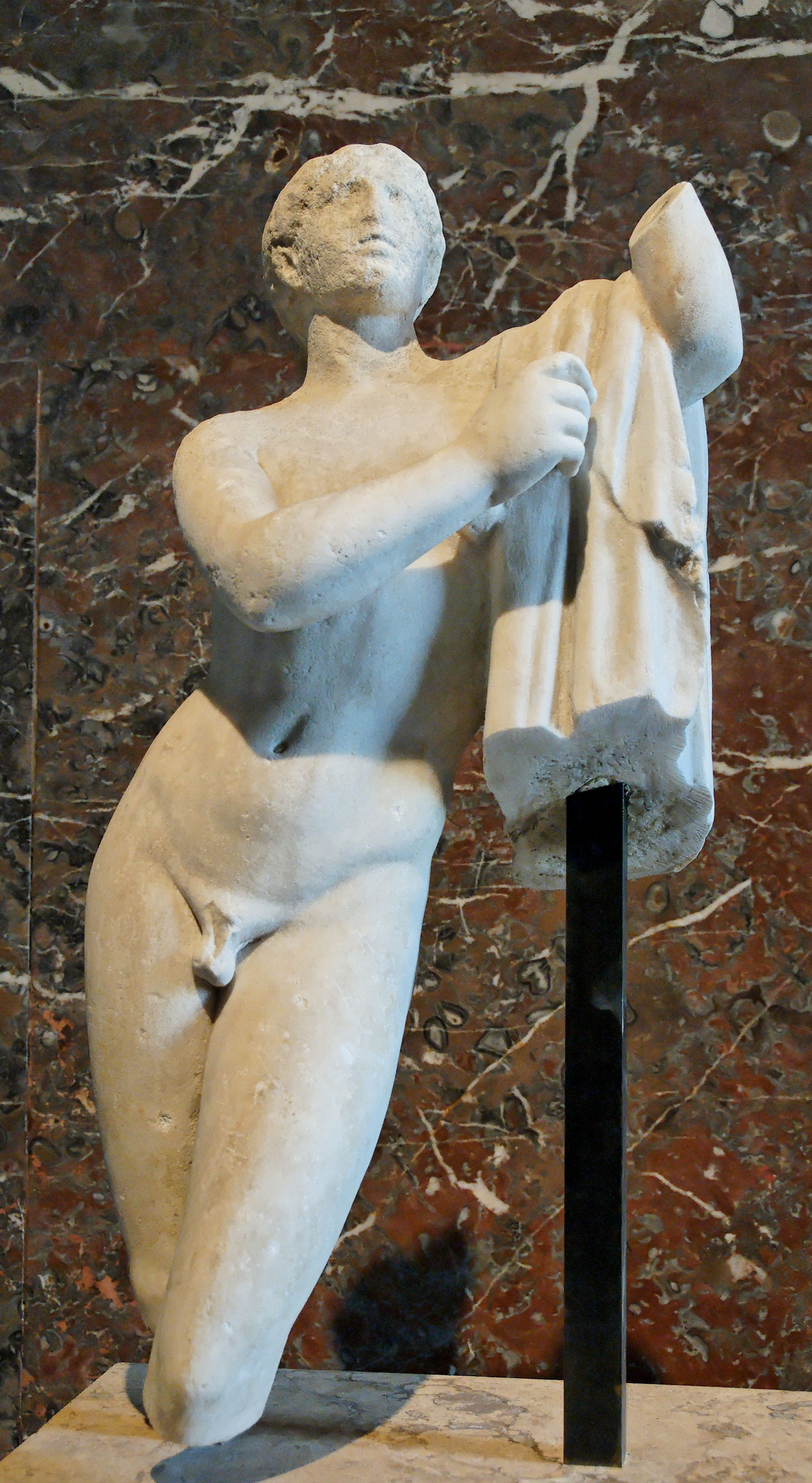 Pothos, god of longing, yearning and desire. Marble, Roman copy from the 1st century AD after the 4th century BC original by Skopas that stood in the temple of Aphrodite at Megara (Pausanias, 1.43.6).